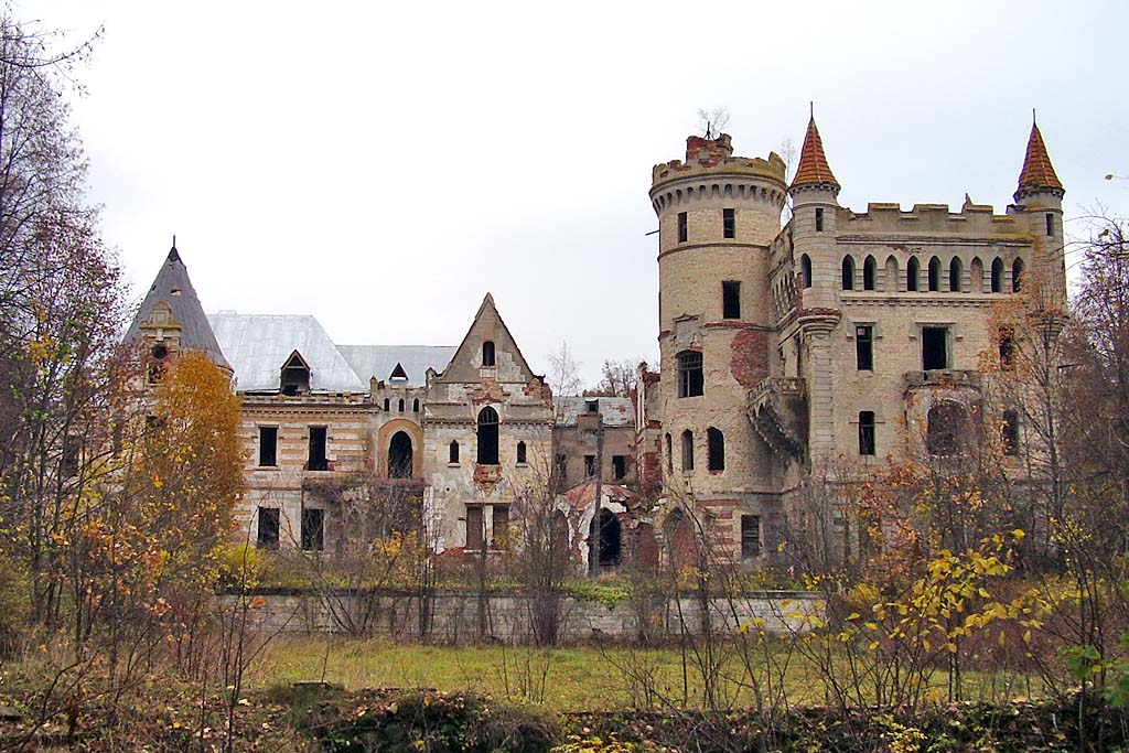 Gothic castle in Muromtsevo, Vladimir Oblast, Russia.